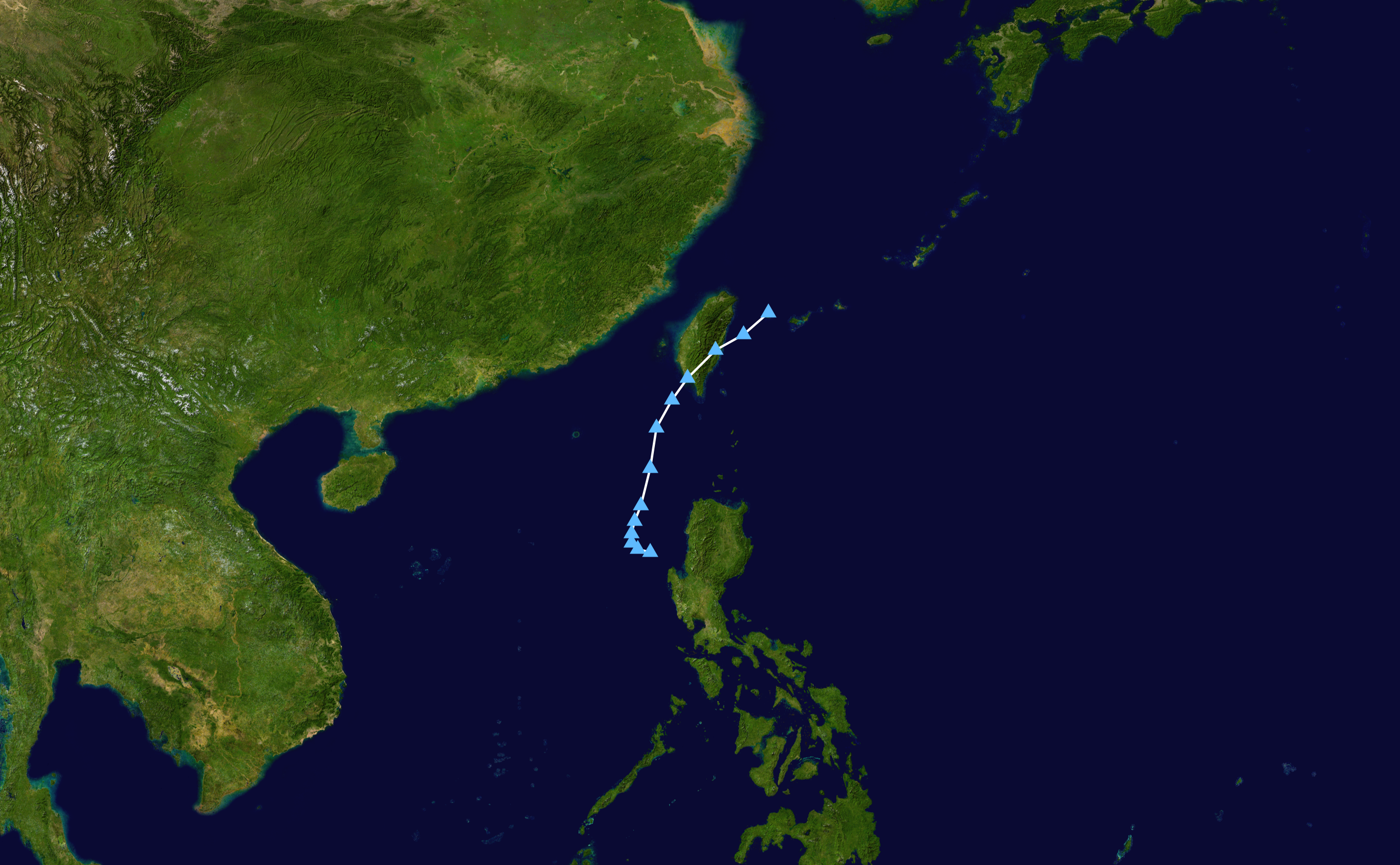 Track map of Tropical Depression Goring of the 2019 Pacific typhoon season. The points show the location of the storm at 6-hour intervals. The colour represents the storm's maximum sustained wind speeds as classified in the Saffir–Simpson scale (see below), and the shape of the data points represent the nature of the storm, according to the legend below. Saffir–Simpson scale Tropical depression≤38 mph≤62 km/h Category 3111–129 mph178–208 km/h Tropical storm39–73 mph63–118 km/h Category 4130–156 mph209–251 km/h Category 174–95 mph119–153 km/h Category 5≥157 mph≥252 km/h Category 296–110 mph154–177 km/h Unknown Storm type Tropical cyclone Subtropical cyclone Extratropical cyclone / Remnant low / Tropical disturbance / Monsoon depression